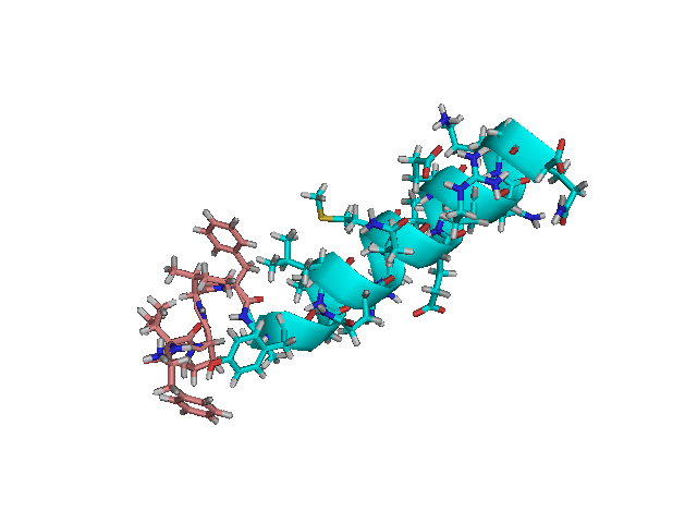 NMR solution structure of Motilin in phospholipid bicellar solution